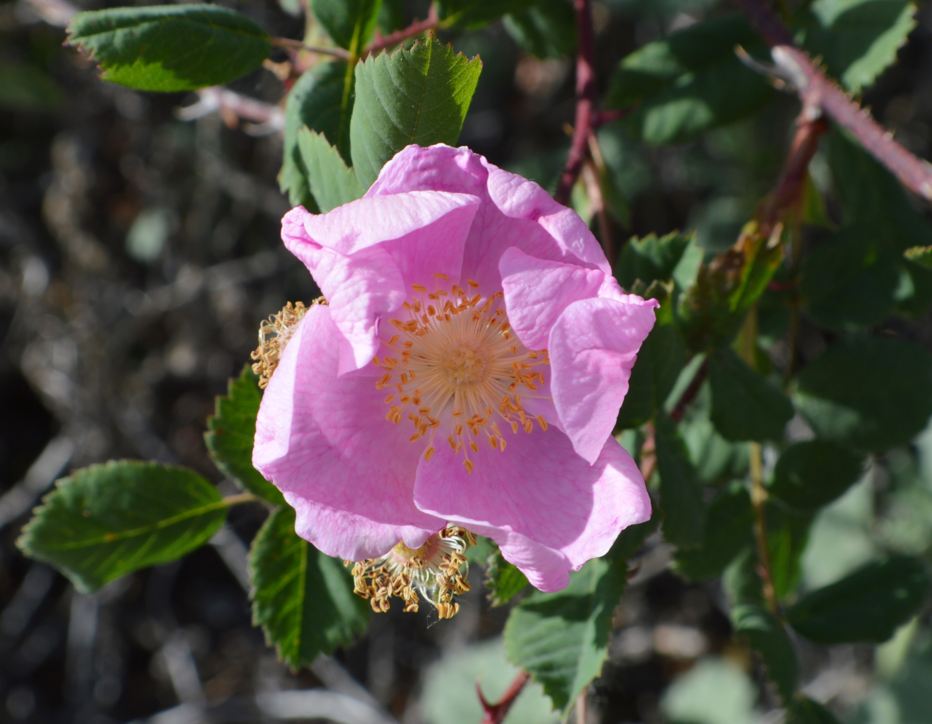 California rose (Rosa californica) - The San Joaquin Wildlife Sanctuary in Irvine, Orange County, California, U.S.A.